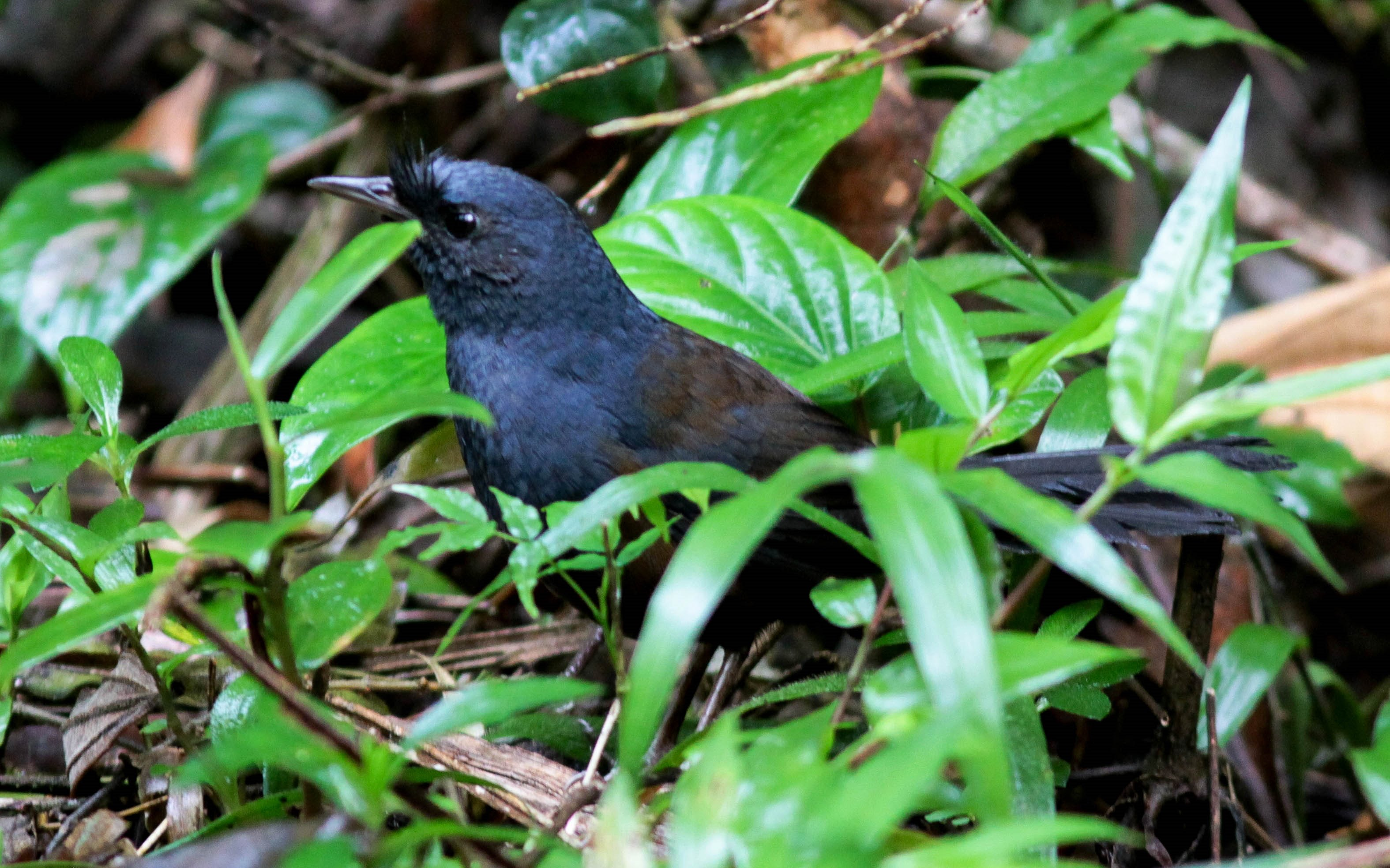 Merulaxis ater